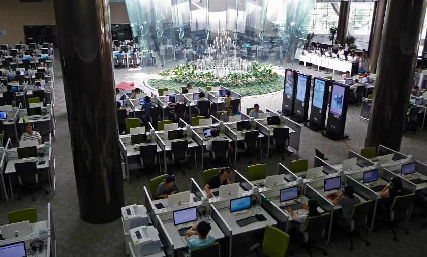 "The Productivity Computer Cluster enables professional jobs with large monitors and multiple monitors, as well as the searching and viewing of digital contents and documentation works." About this photo: when in Seoul, one of our library staff members took the opportunity to visit the National Digital Library of Korea# Dibrary is the world’s first hybrid library combining digital and analogue ideas# Dibrary consists of “Dibrary Portal,” a virtual space, and a physical service space called “Dibrary Information Commons”# - # About Dibrary#